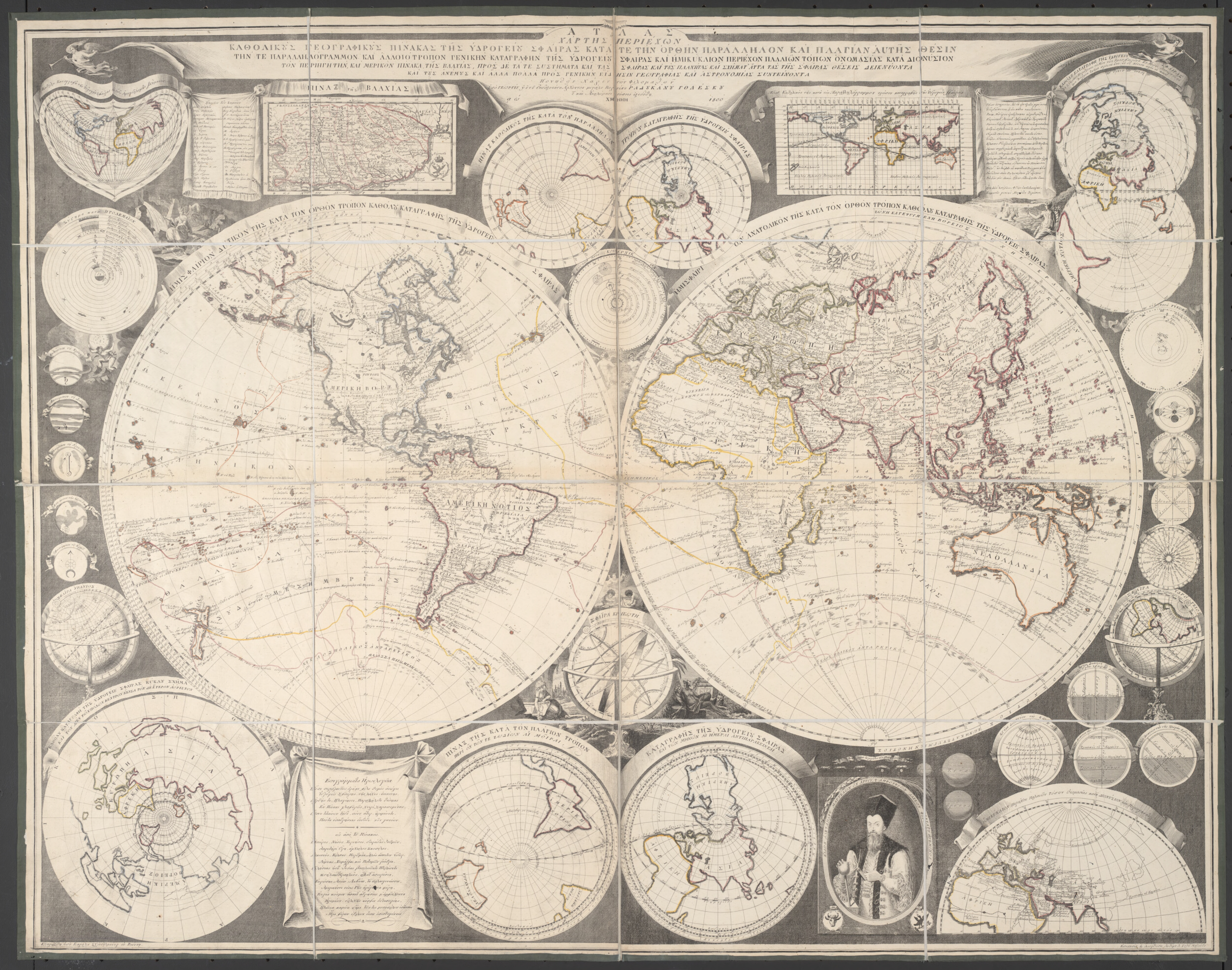 Atlas [...] of the Globe, 95 cm x 122 cm, Vienna 1800. With text in Greek. There are only four or five known surviving copies of this Atlas. This particular photo is from the copy of the National Library of Australia.